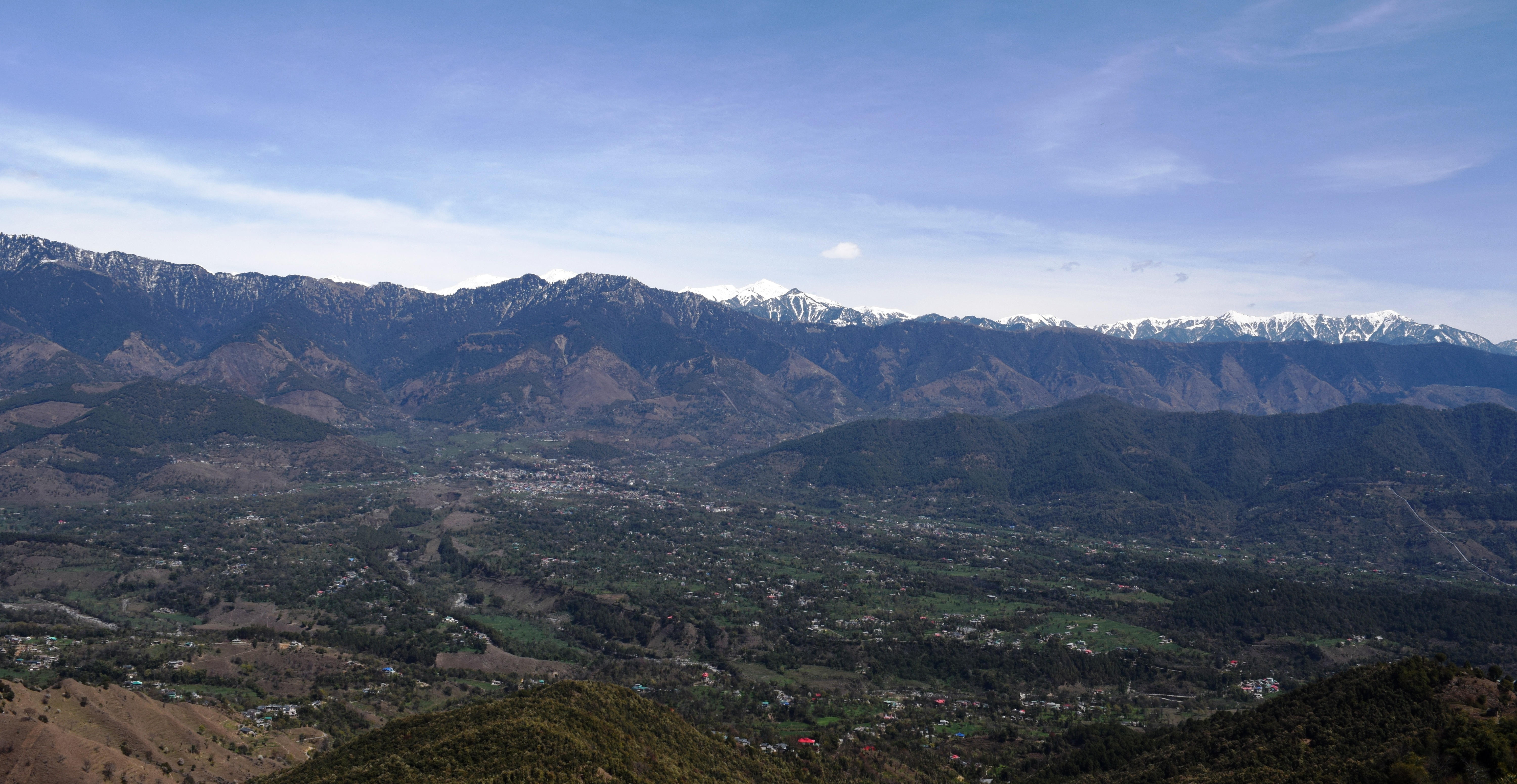 Joginder Nagar and its sub-urban areas as seen from Siqandar Dhar